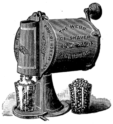 Late 19th century ice crusher